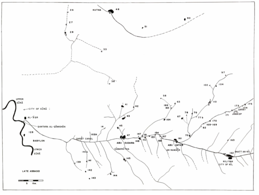 A map showing Late Abbasid archaeological sites and waterways along the Shatt en-Nil canal in Iraq. To the west, the canal meets with the Euphrates river a short distance upstream from Babylon. The name "Sarat Canal" is shown for this part of the canal. Going east, the ancient site of Kish is labeled, and then the site of Abu Sudaira (which is also labeled as Sabarnitha), Abu Hatab (which is also labeled as An-Nawa'ir), and finally Niliyah (which is also labeled as City of Nil). To the east of Niliyah, the name Shatt an-Nil is written above the canal.